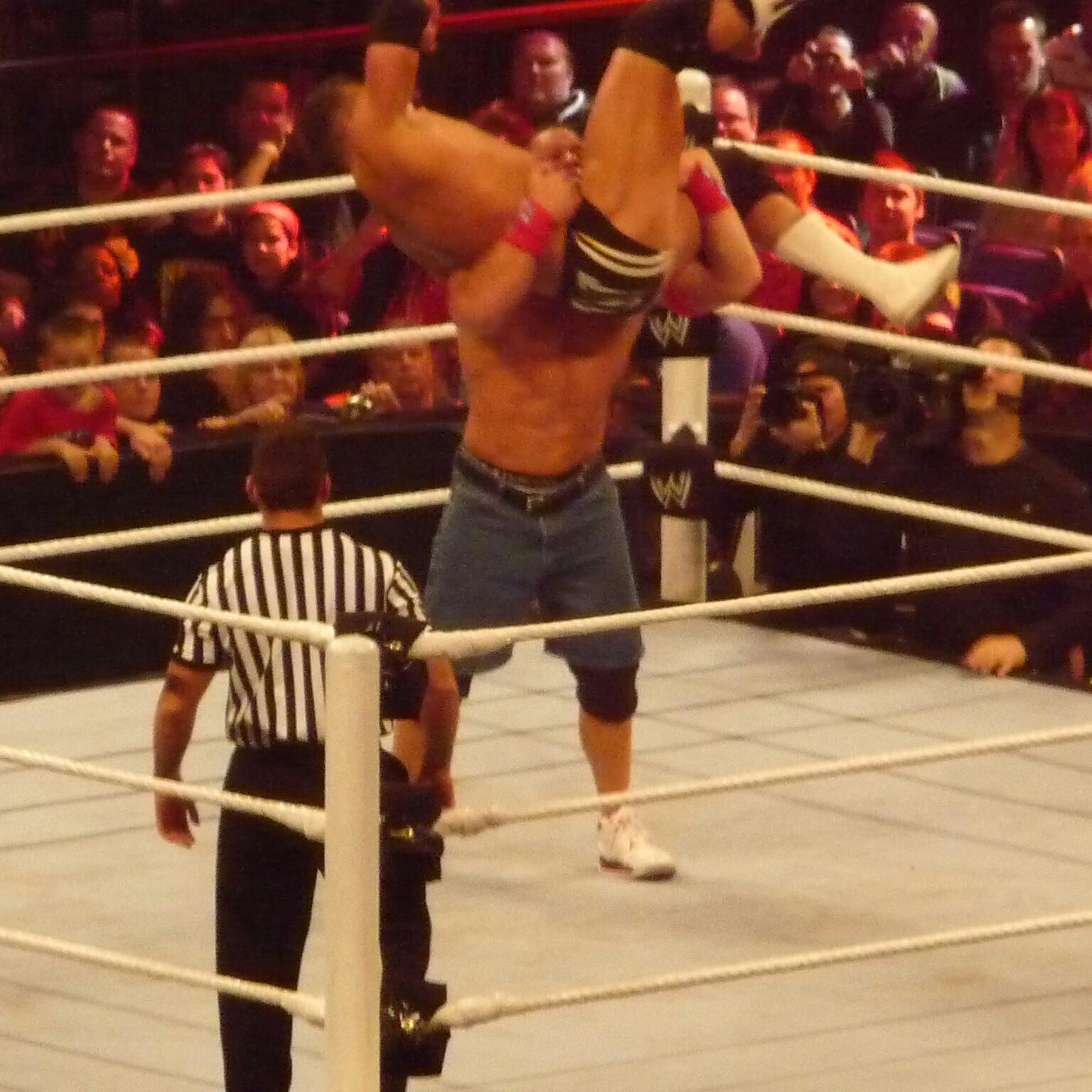 John Cena performing Spin-out bomb on Alex Riley